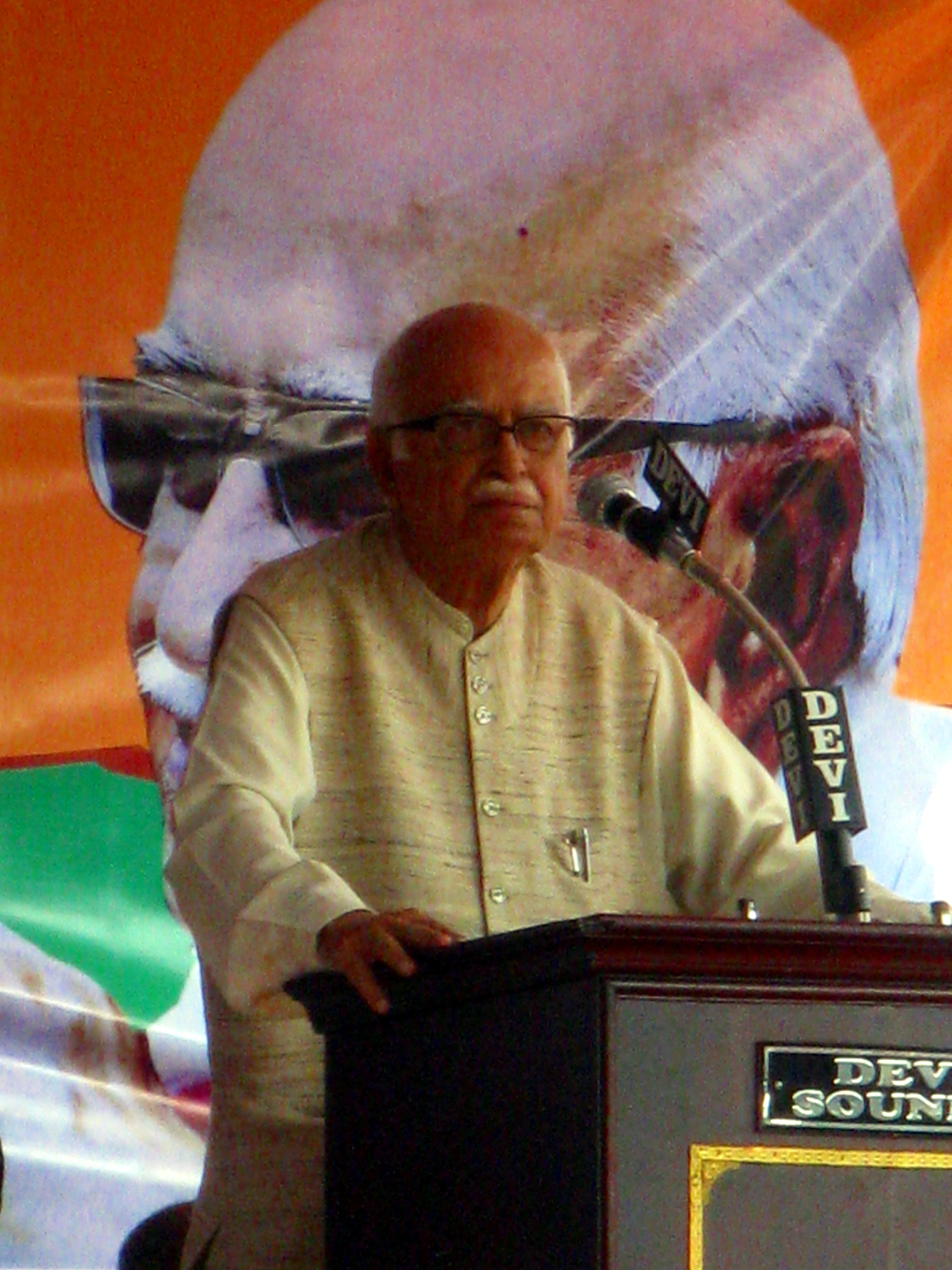 This media file is uploaded with Malayalam loves Wikimedia event. BJP Leader L K Advani